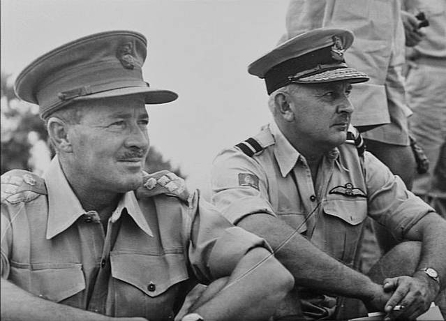 Haramura, Nagano, Japan. Brigadier Garrett and Air Vice Marshal Charlesworth watching the Firepower demonstration of Light Machine Guns and Mortars.